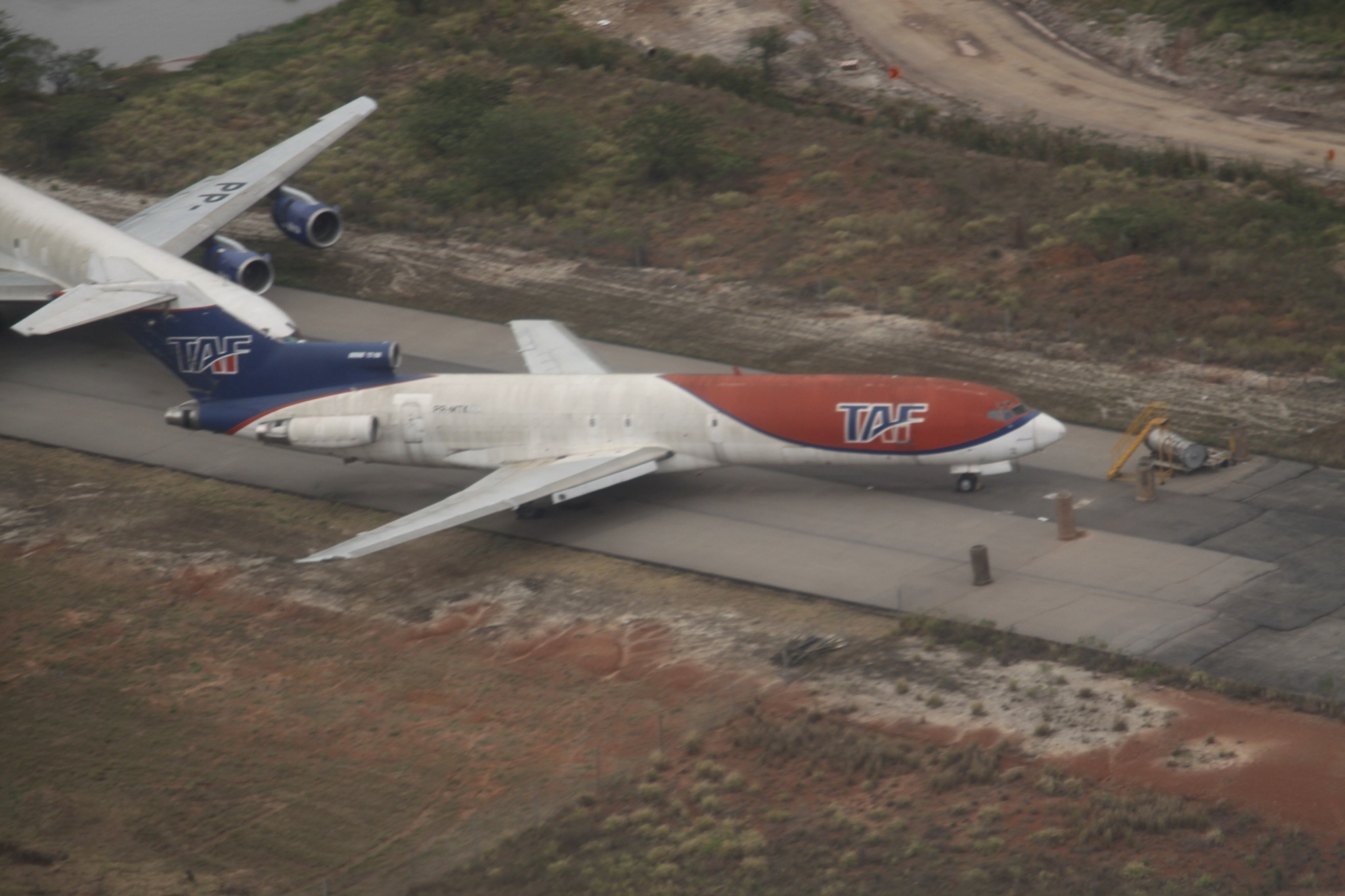 At Sao Paulo Guarulhos